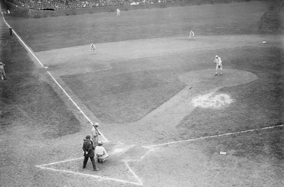 Bender pitching, Crandall batting, 1913 World Series Game 4, Shibe Park. Cropped